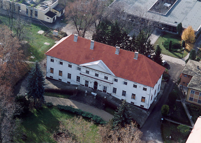 Palace - Bóly - Hungary - Europe